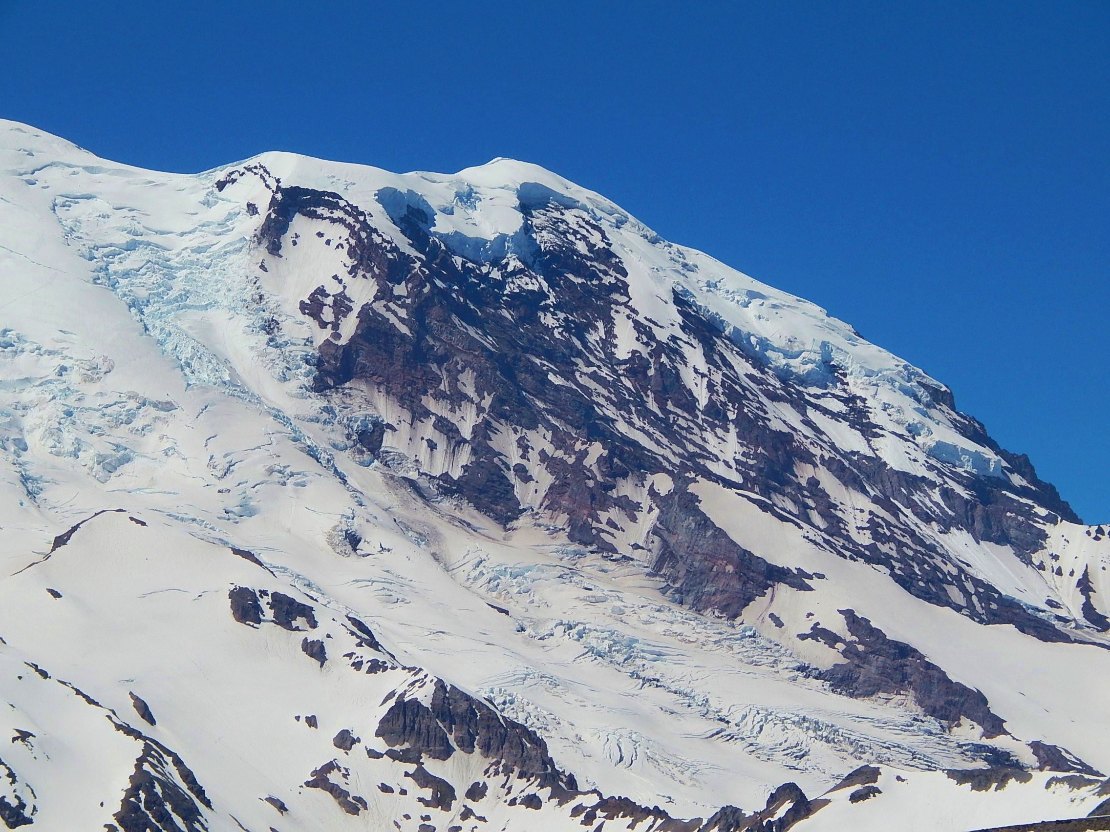 Russell Cliff and Willis Wall, Winthrop Glacier on Mount Rainier seen from Sourdough Ridge